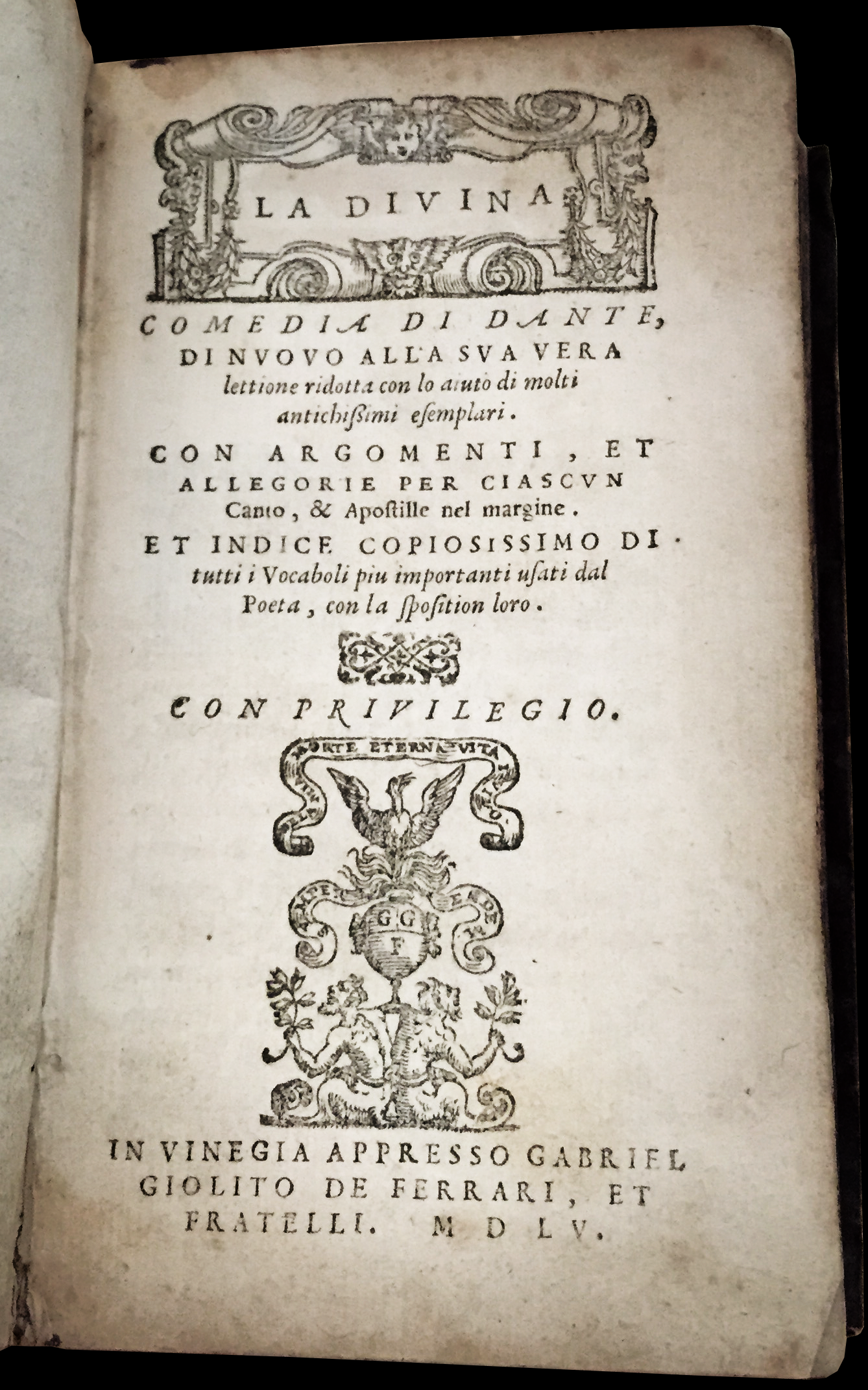 1555 Edition of the Divina Commedia, first one with the adjective "divina" in the title